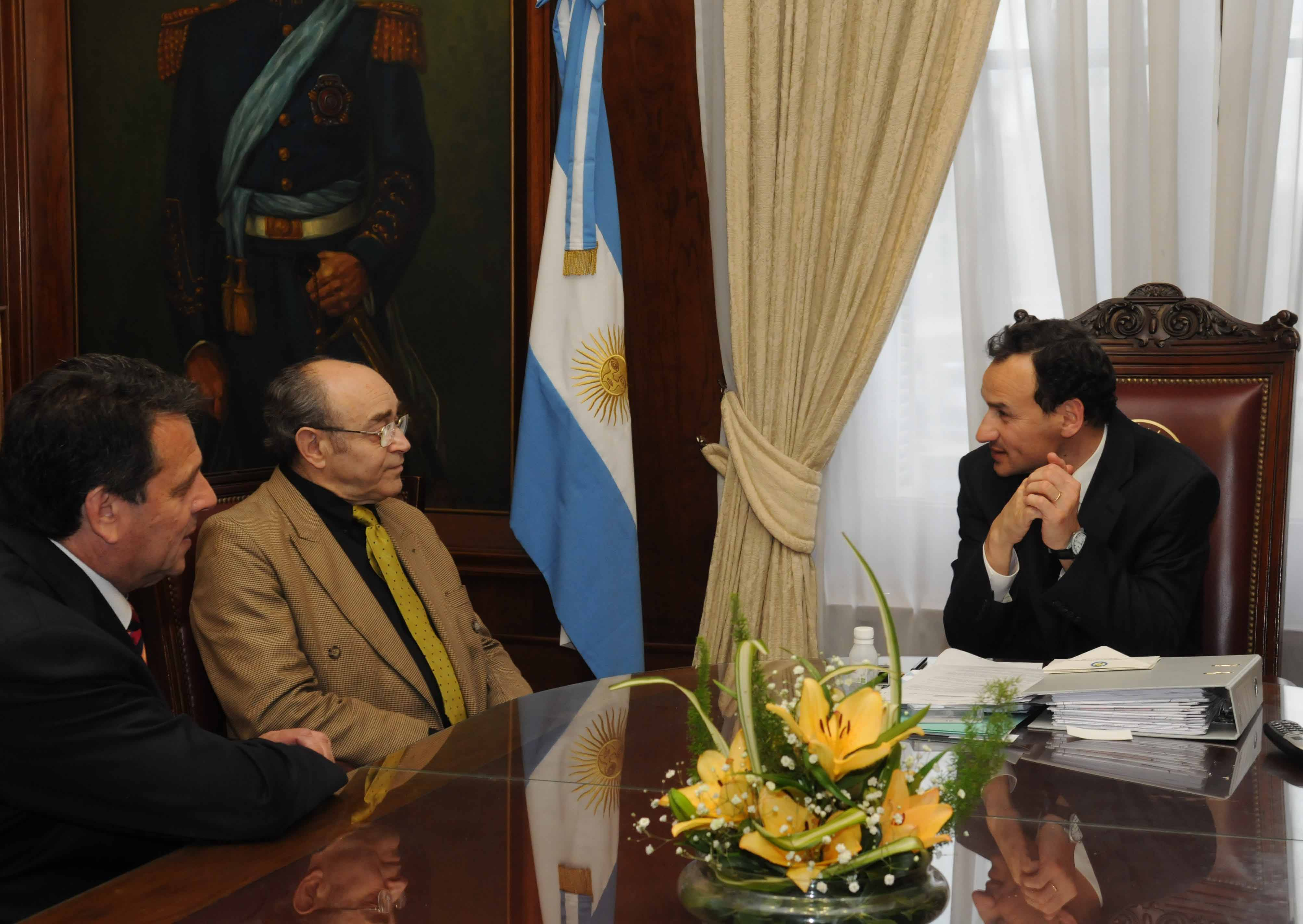 Alberto Portugheis at a meeting with the Mayor of La Plata in relation to his peace work.